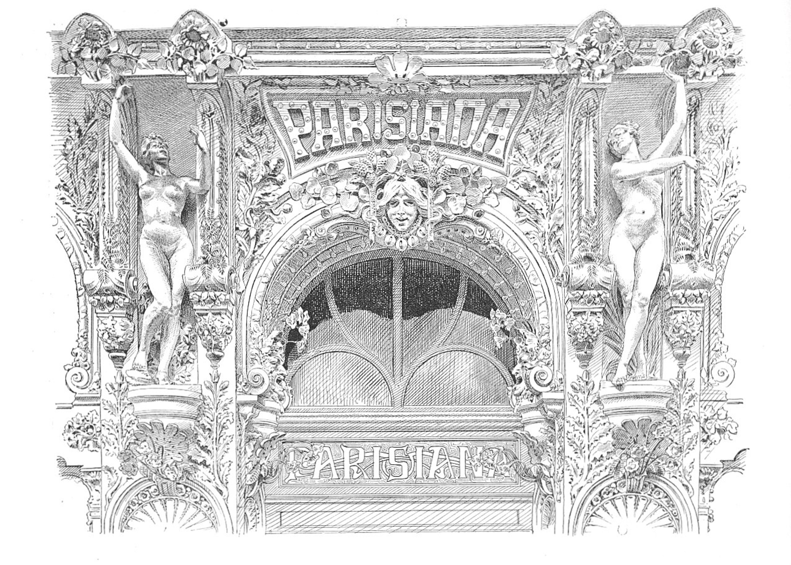 The Parisiana is a Parisian concert hall built on the plans of the architect Édouard Jandelle-Ramier at the Belle Époque. Facade details.